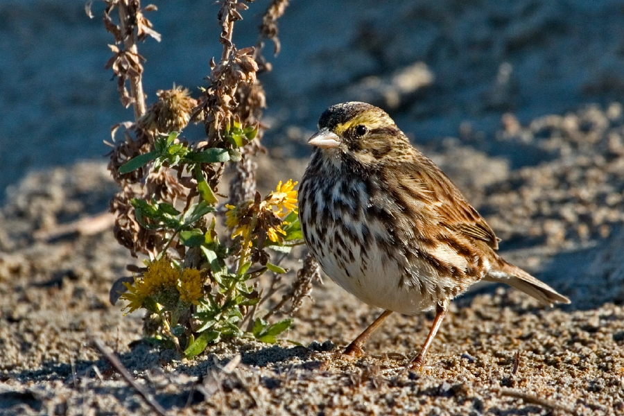 Passerculus sandwichensis - Savannah Sparrow, Bolsa Chica Ecological Reserve, Huntington Beach, California